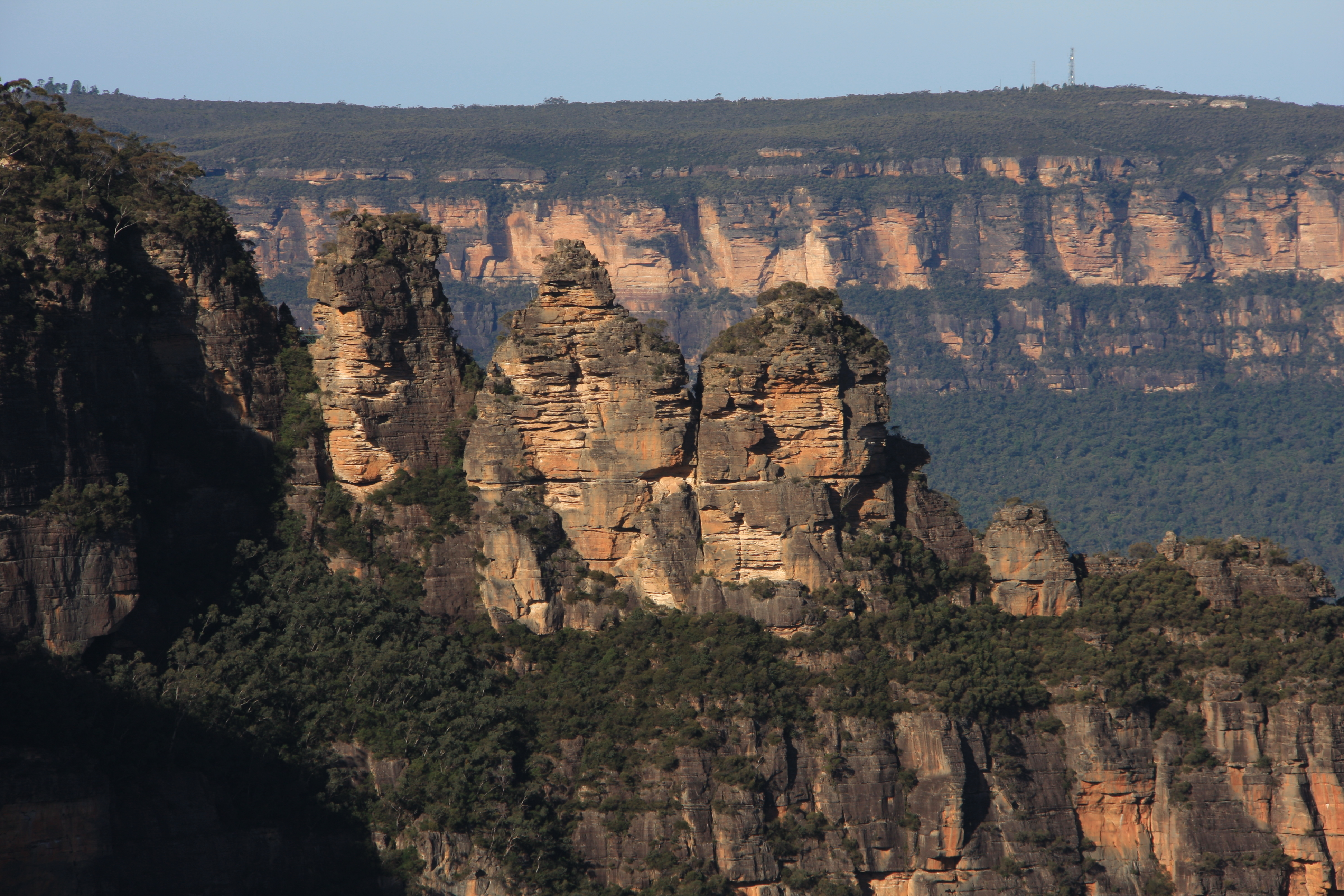 Three sisters in Katoomba in the Blue Mountains, New South Wales